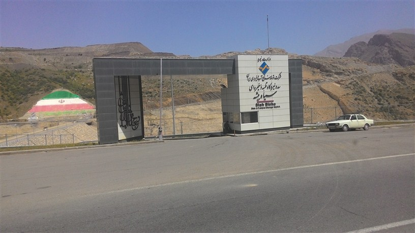 Siah Bishe Pumped Storage Power Plant's entrance